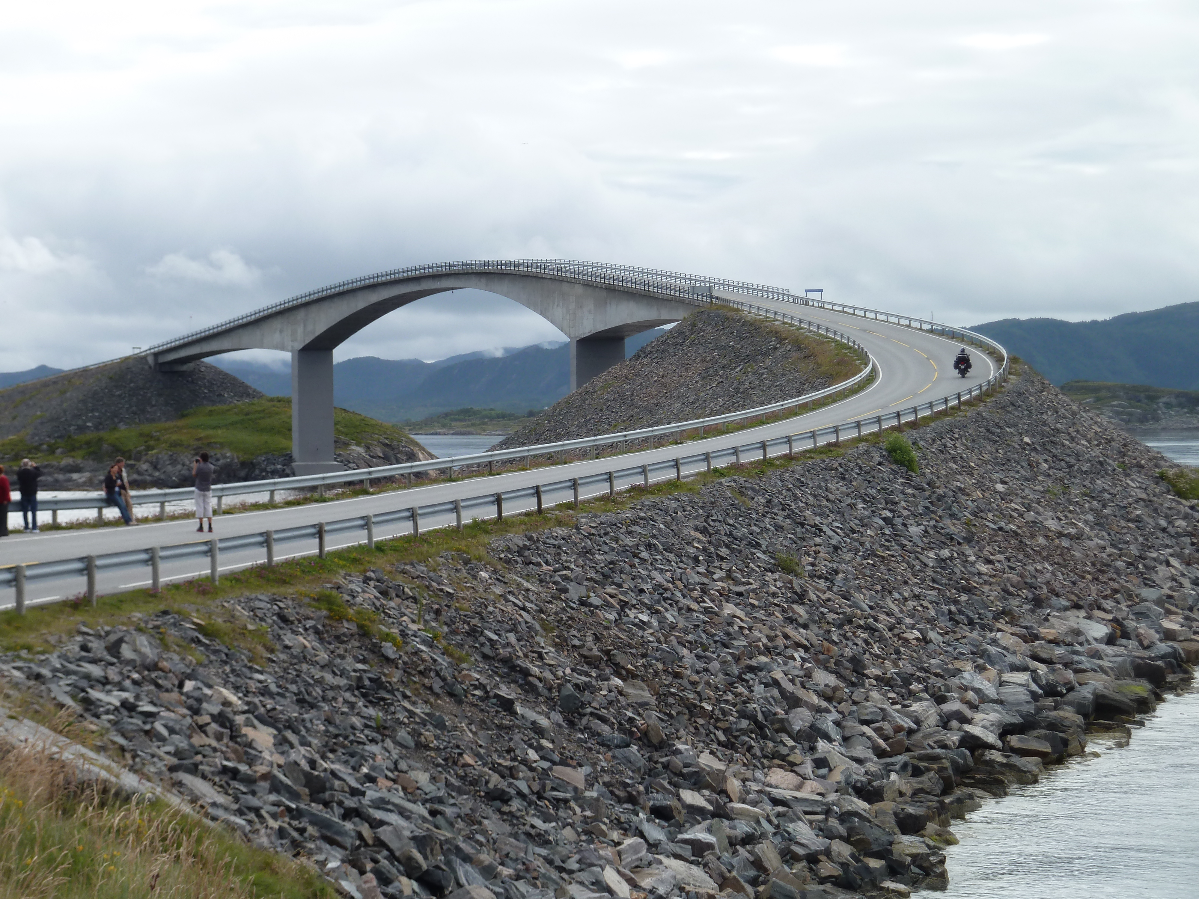 Atlantic Road Norway